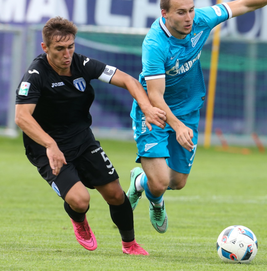 Bogdan Vătăjelu